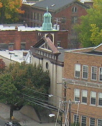 Our Lady of Mt. Carmel Church in the Little Italy area of Poughkeepsie, NY